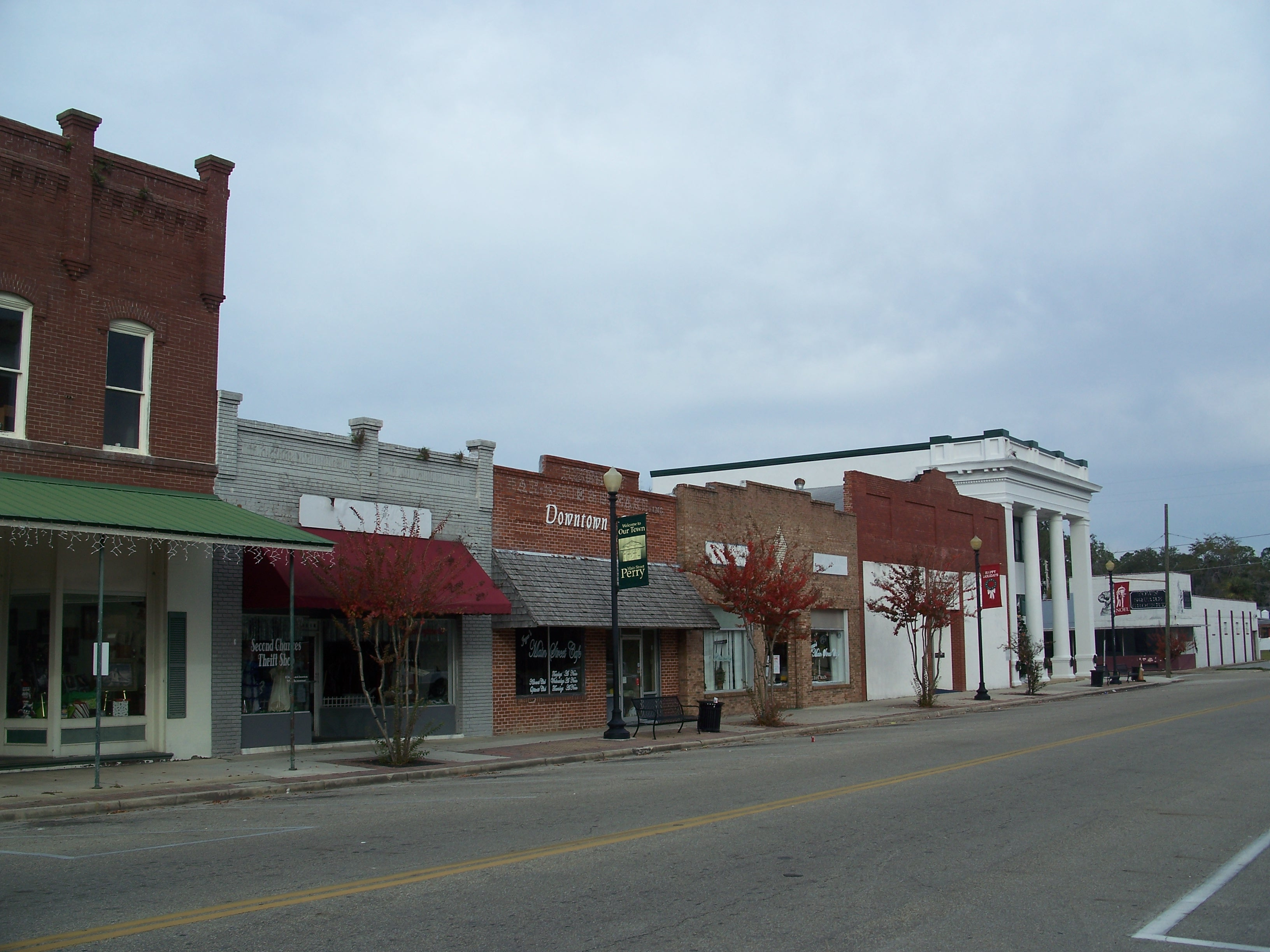 Perry, Florida: Downtown street.